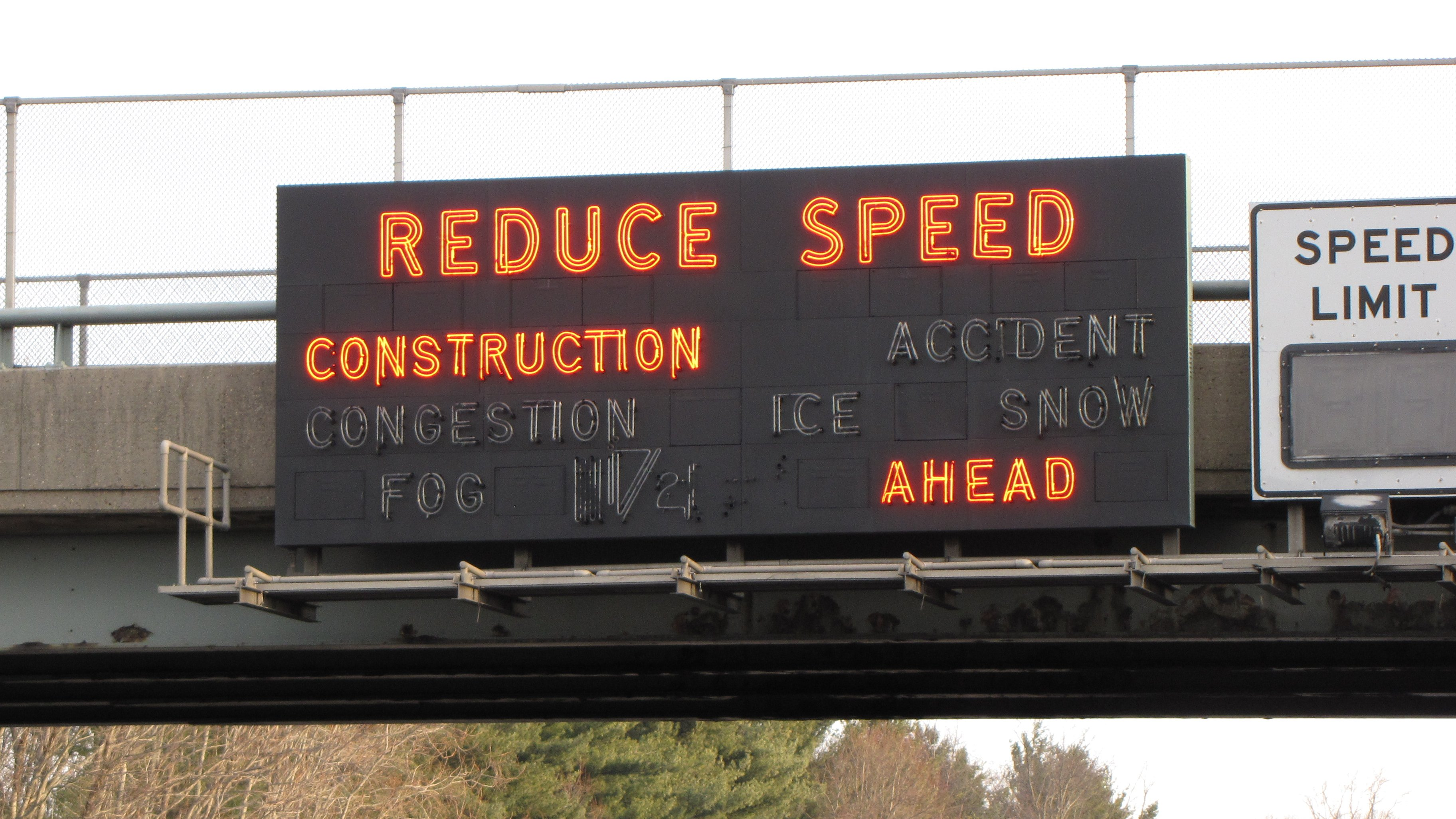 Neon "Reduce Speed" sign on the New Jersey Turnpike. In this case, the sign is lit to indicate that construction is coming up ahead.